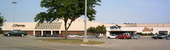 Westdale Mall in Cedar Rapids, photographed in June 2006.